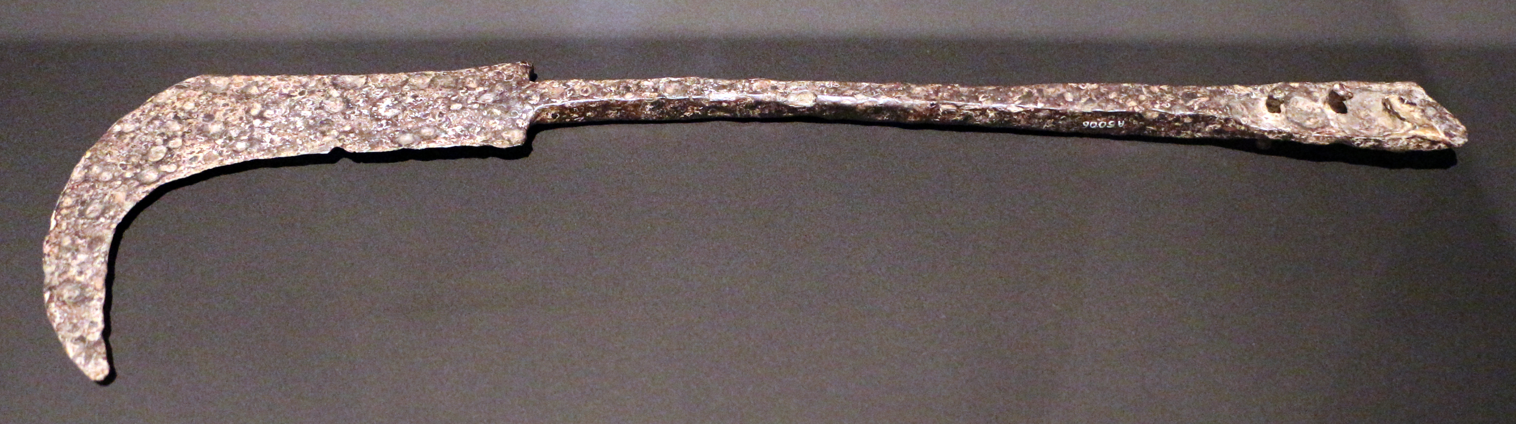 Neo Preistoria exhibition (Milan 2016)